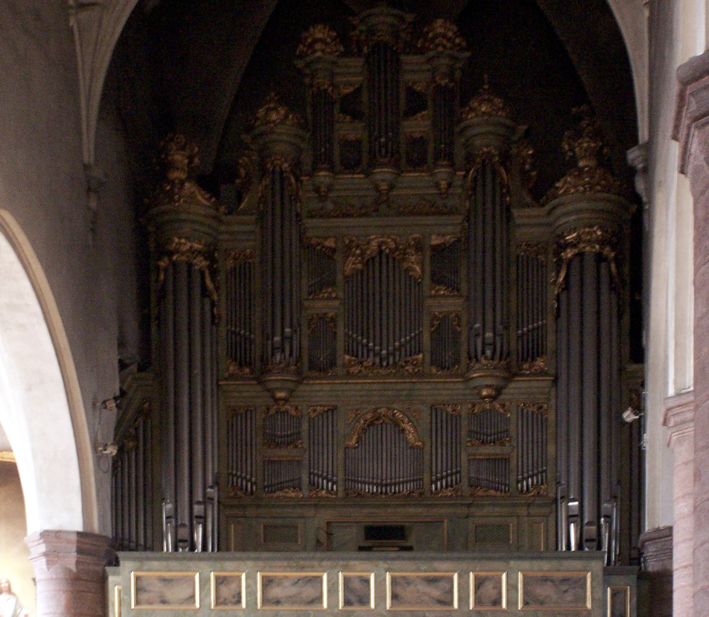 Jakob church, Stockholm, Sweden - Organ